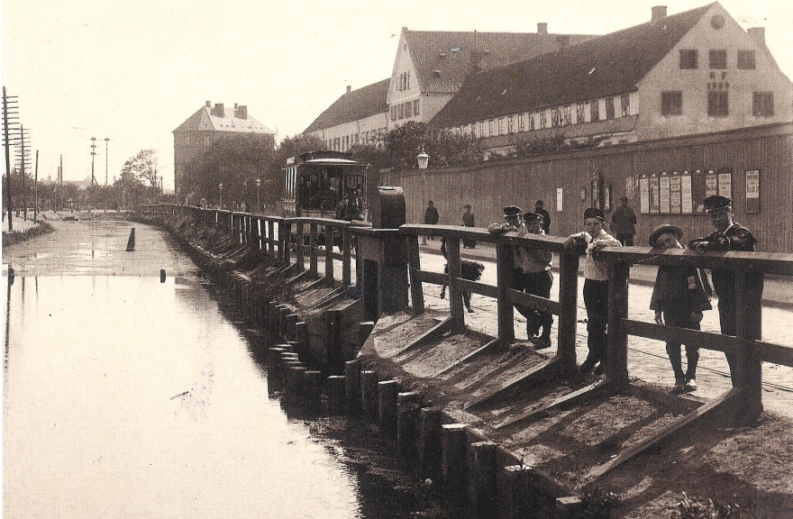 Ladegårdsåen where Åboulevard in Nørrebro is today in Copenhagen, Denmark